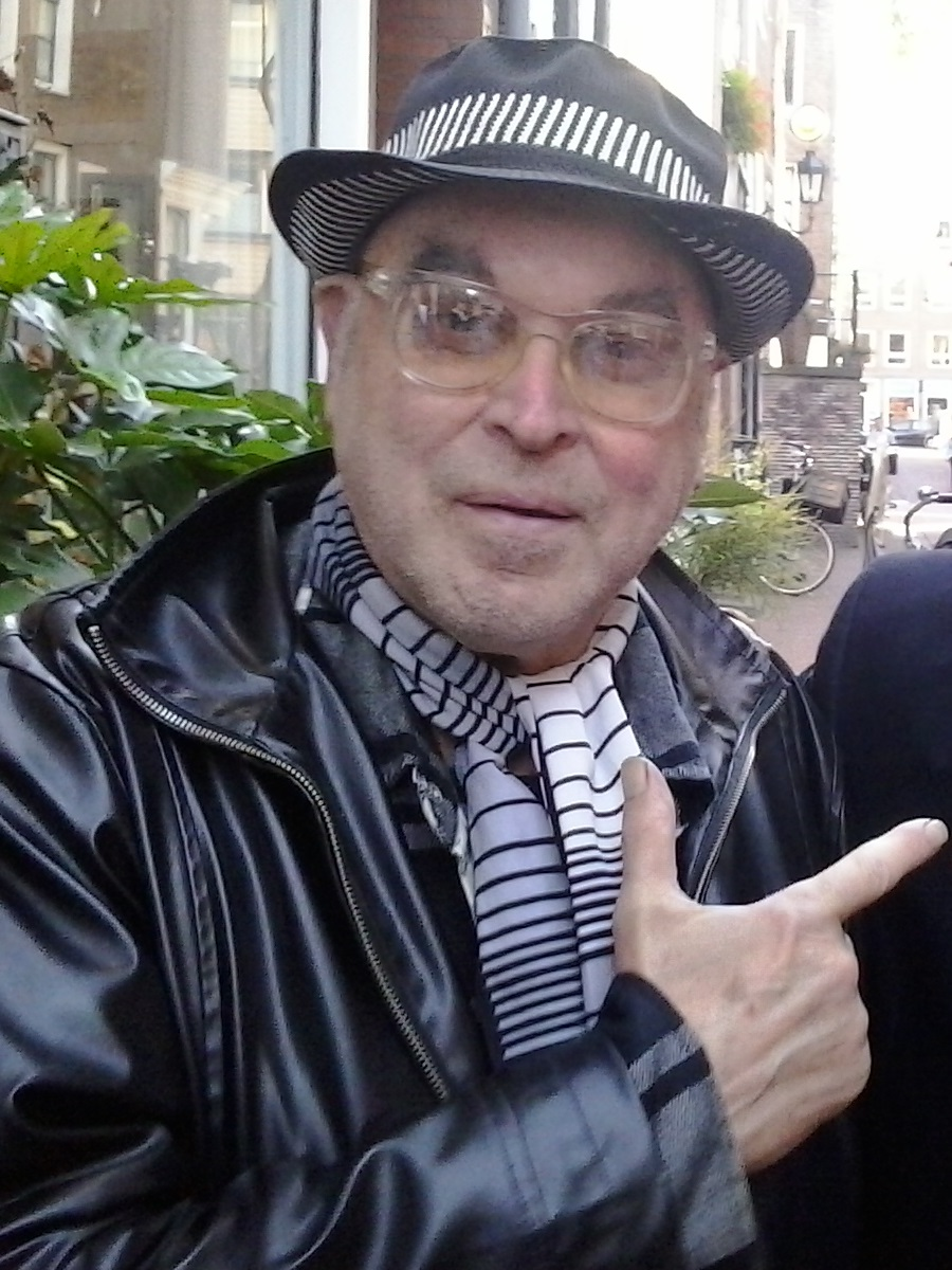 Ralph Wingens in 2013